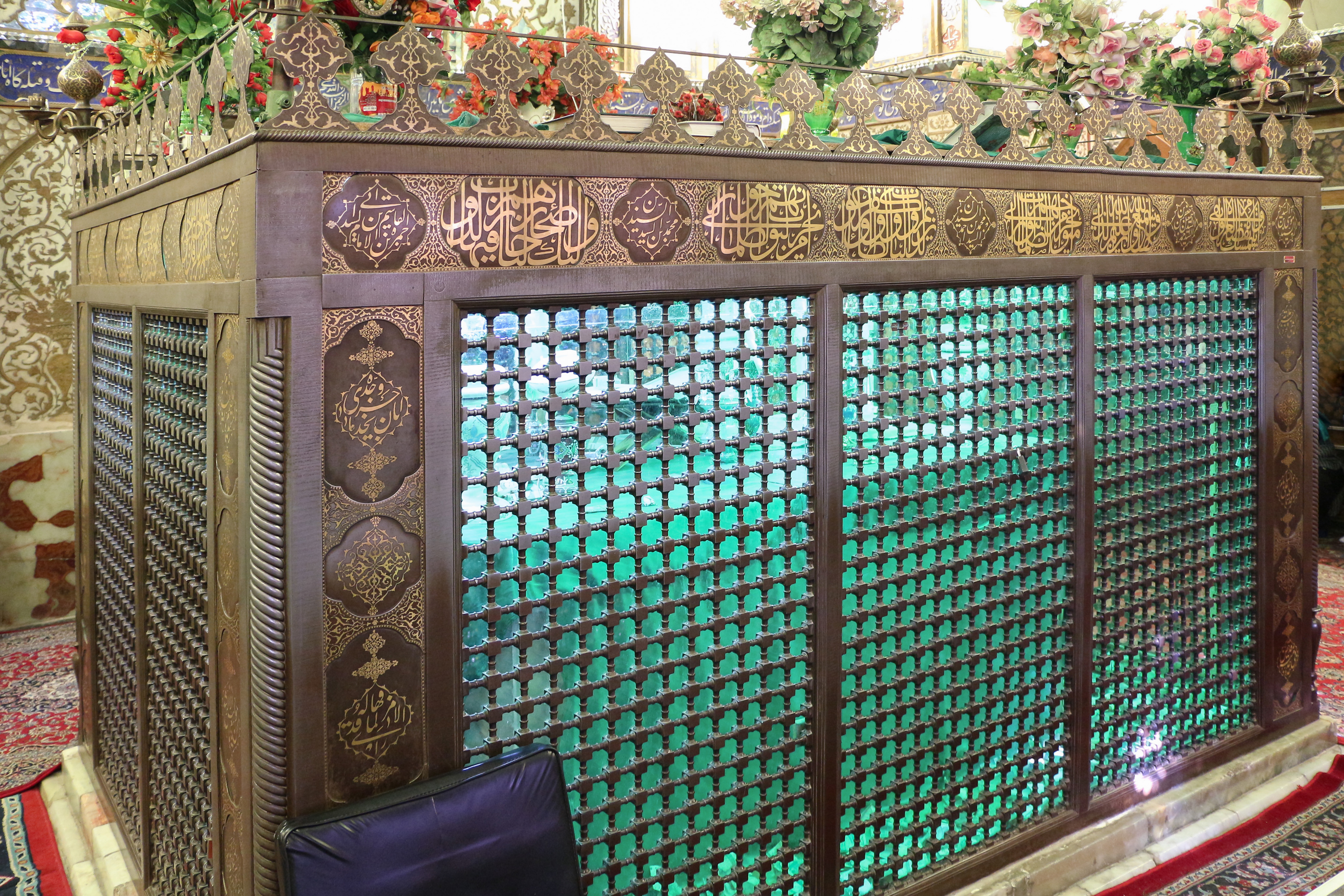 Tomb of Mohammad Bagher Shafti in Seyyed Mosque, Isfahan, Iran